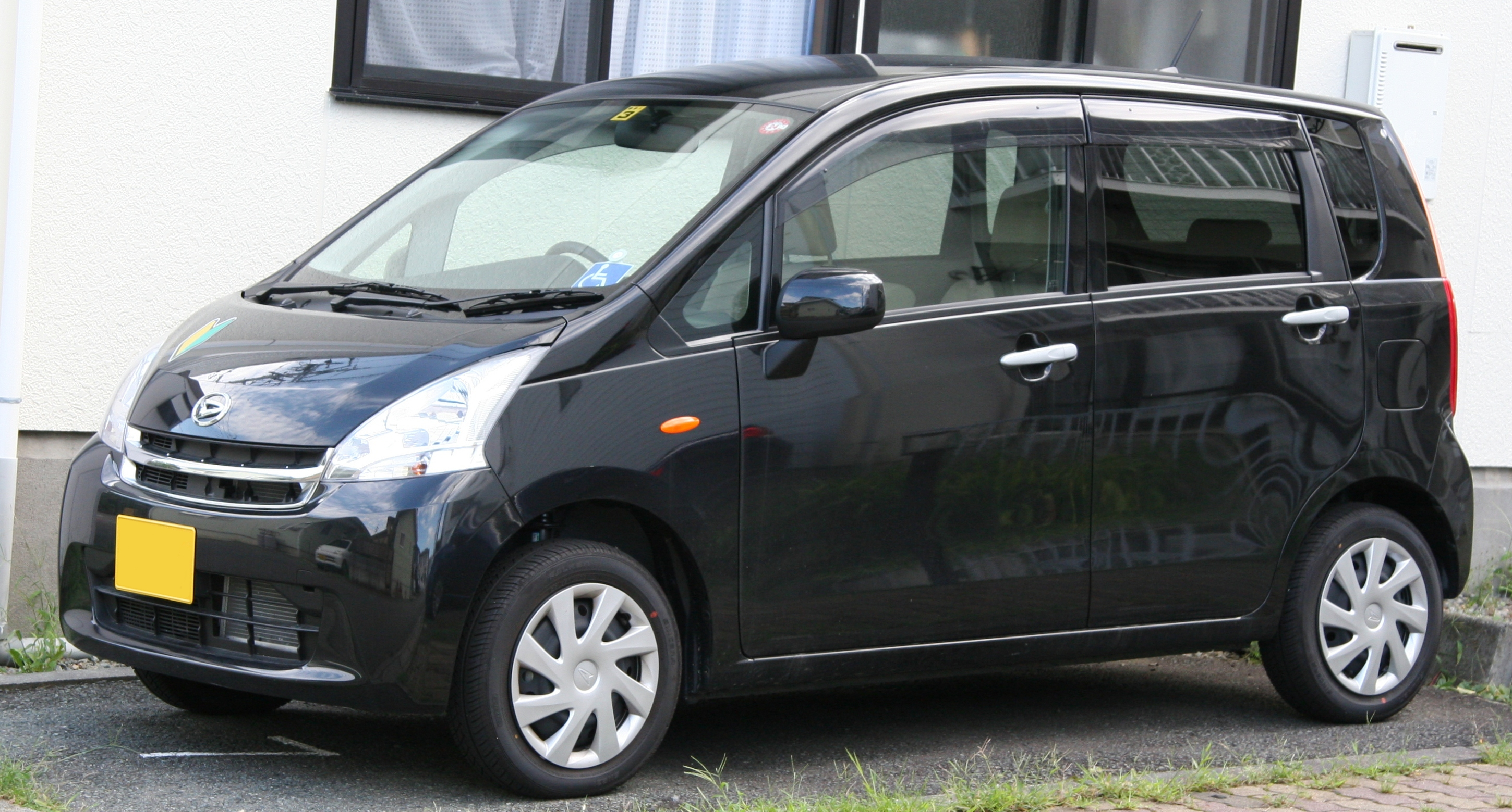 Daihatsu Move